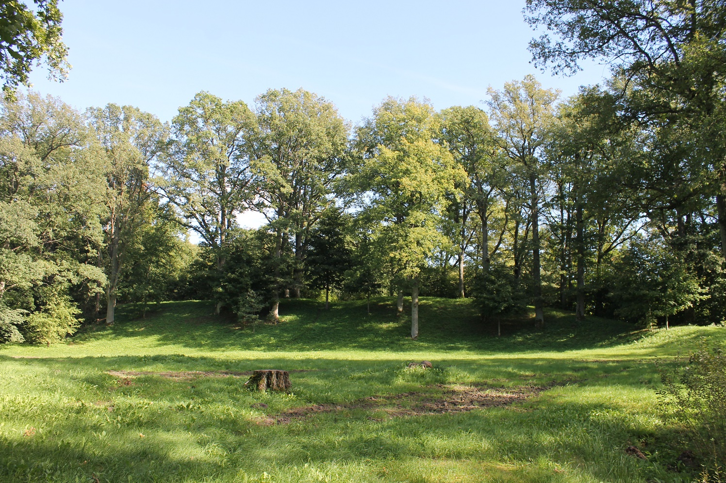 Apuolė Hillfort, Skuodas district, LithuaniaLietuvių: Apuolės piliakalnis, Skuodo rajonas, Lietuva